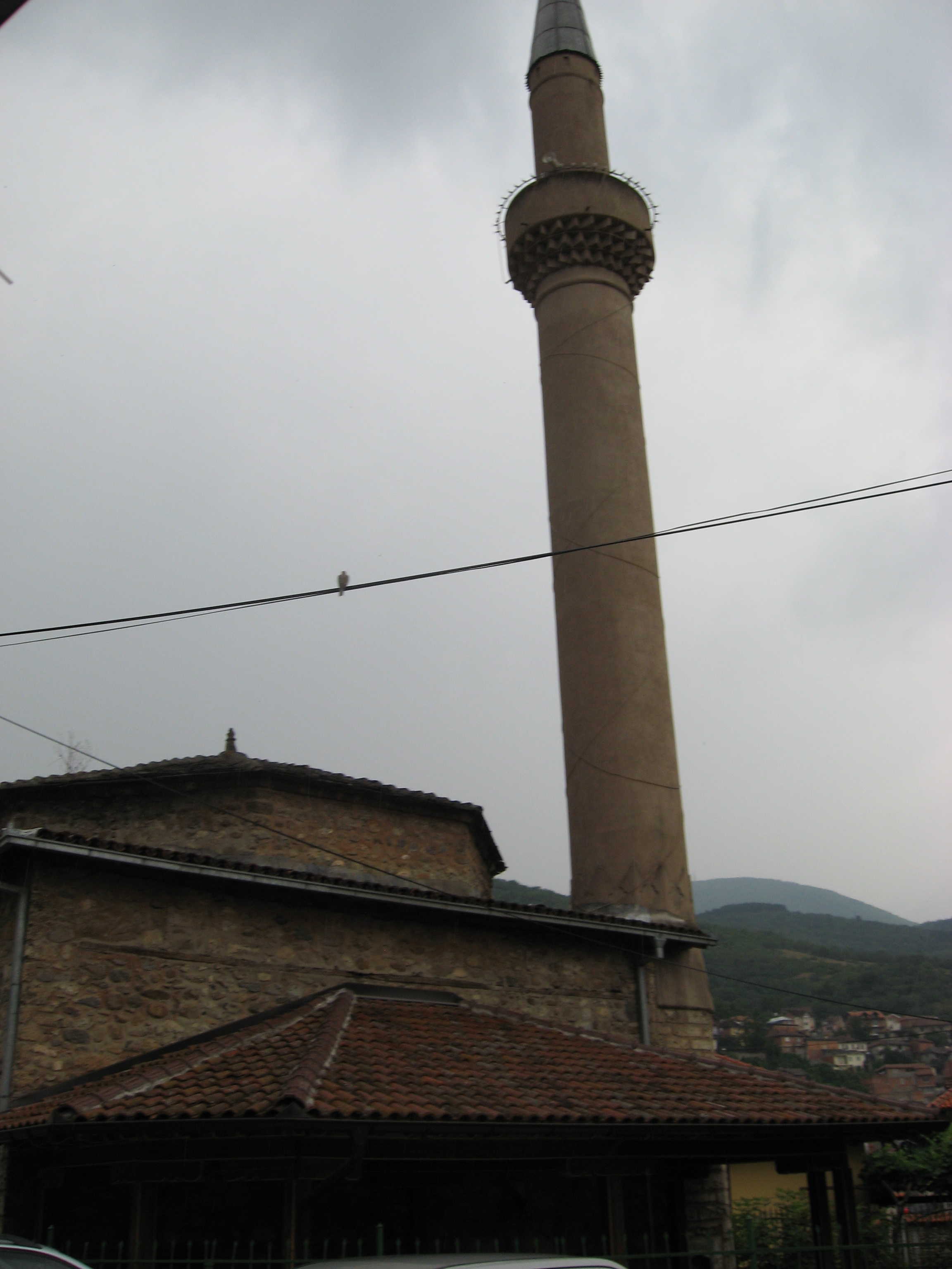 Pictures from Prizren Kosovo